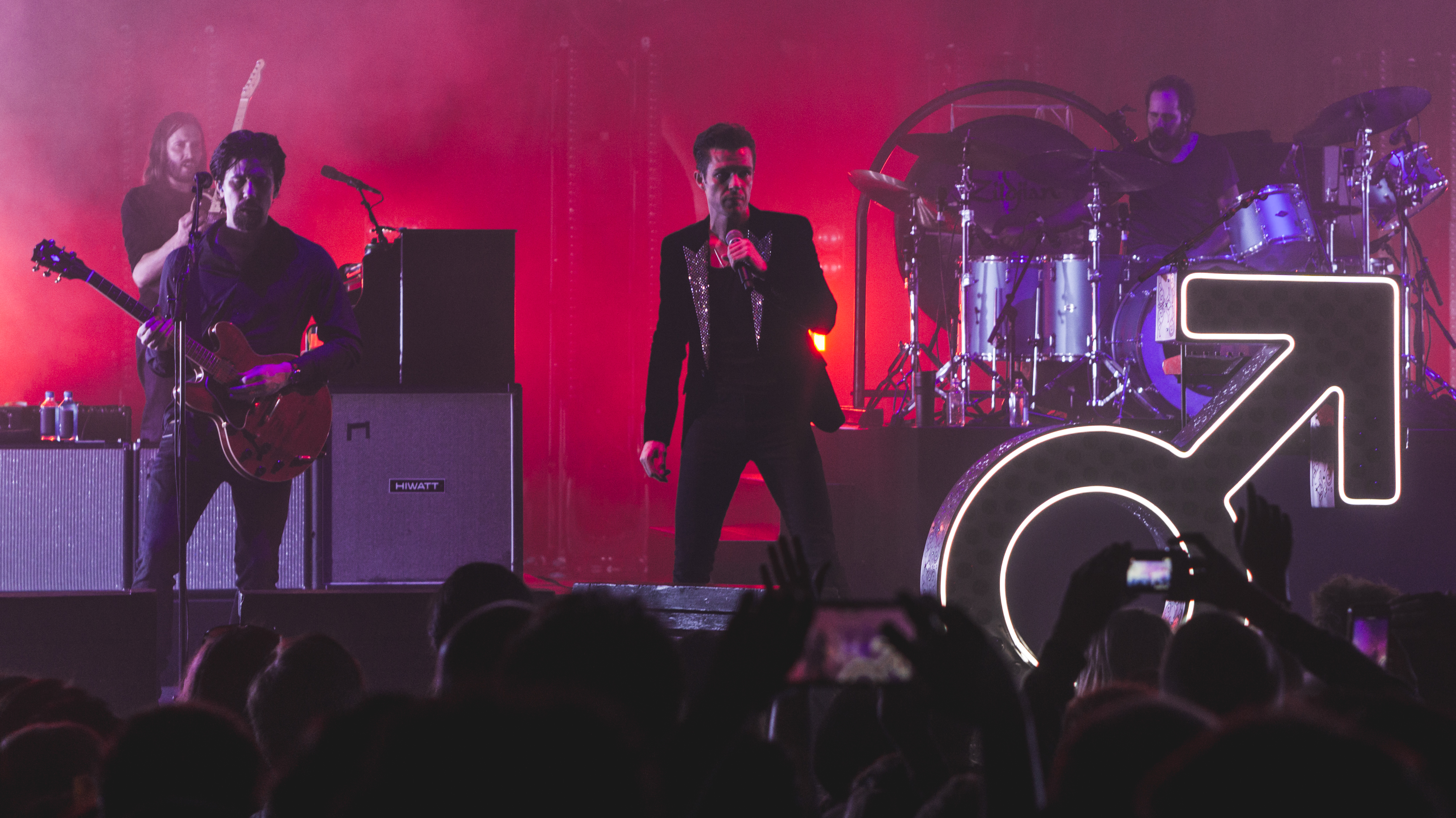 Performance of American rock band The Killers at the Brixton Academy in September 2017.